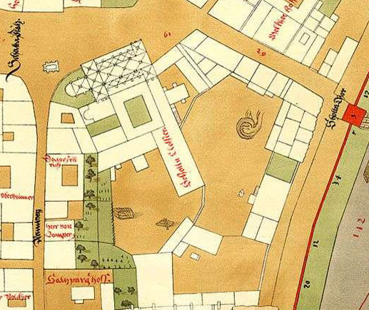 The Schottenstift in Vienna, Austria, a detail from a historical map of Vienna by Bonifaz Wolmuet in 1547. The map shown here is an 1857 reproduction made by Albert Camesina. It was obtained from the Cartographic Collection of the Vienna Municipal and Provincial Archives, reference number P2: 236 G.